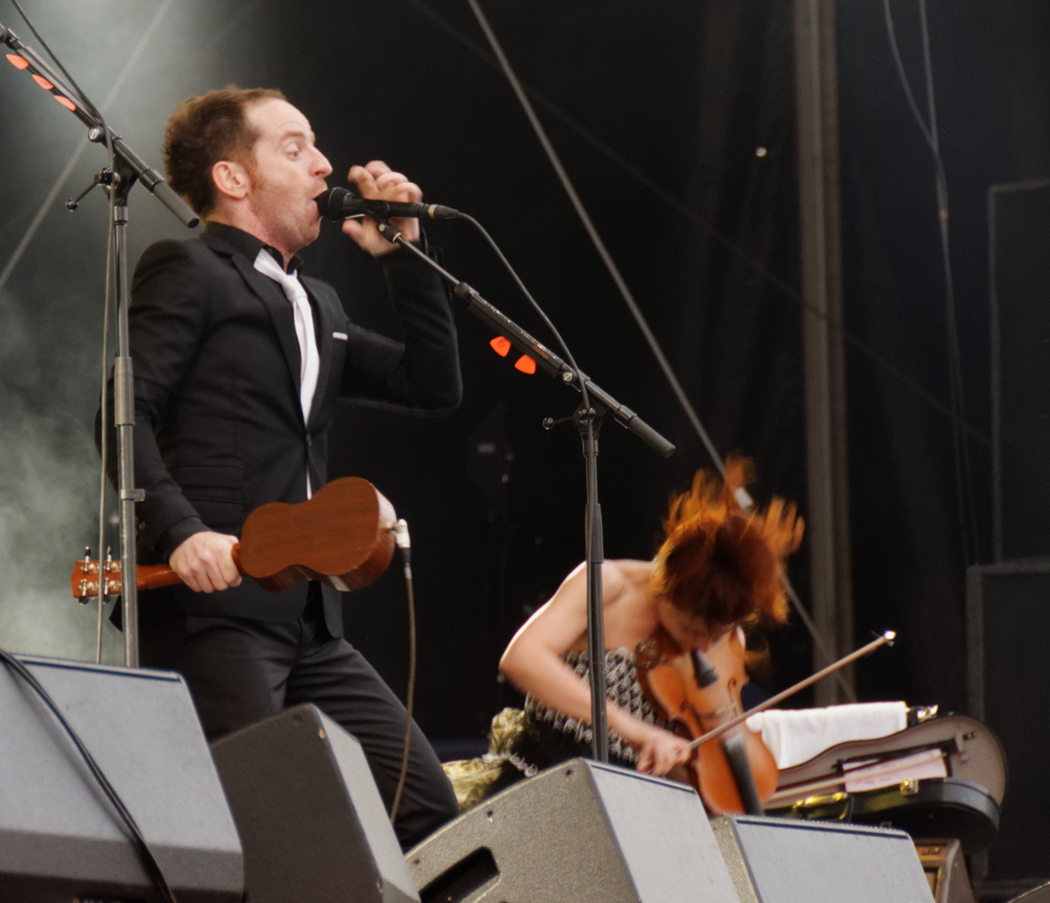 This photograph was taken with a Nikon D300 Personality rights warningAlthough this work is freely licensed or in the public domain, the person(s) shown may have rights that legally restrict certain re-uses unless those depicted consent to such uses. In these cases, a model release or other evidence of consent could protect you from infringement claims.